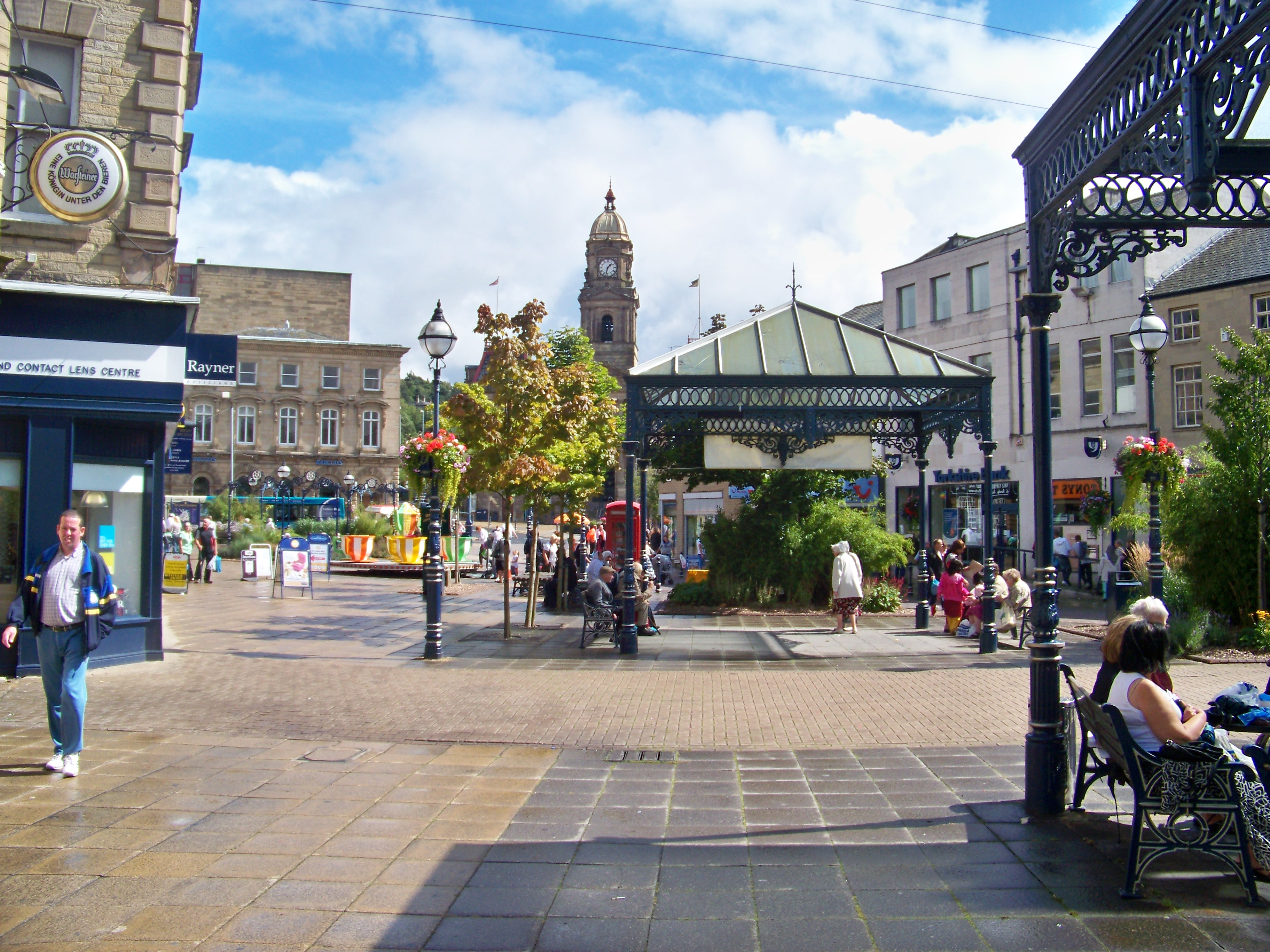 Dewsbury Market Place taken on the afternoon of Saturday 15th August 2009.